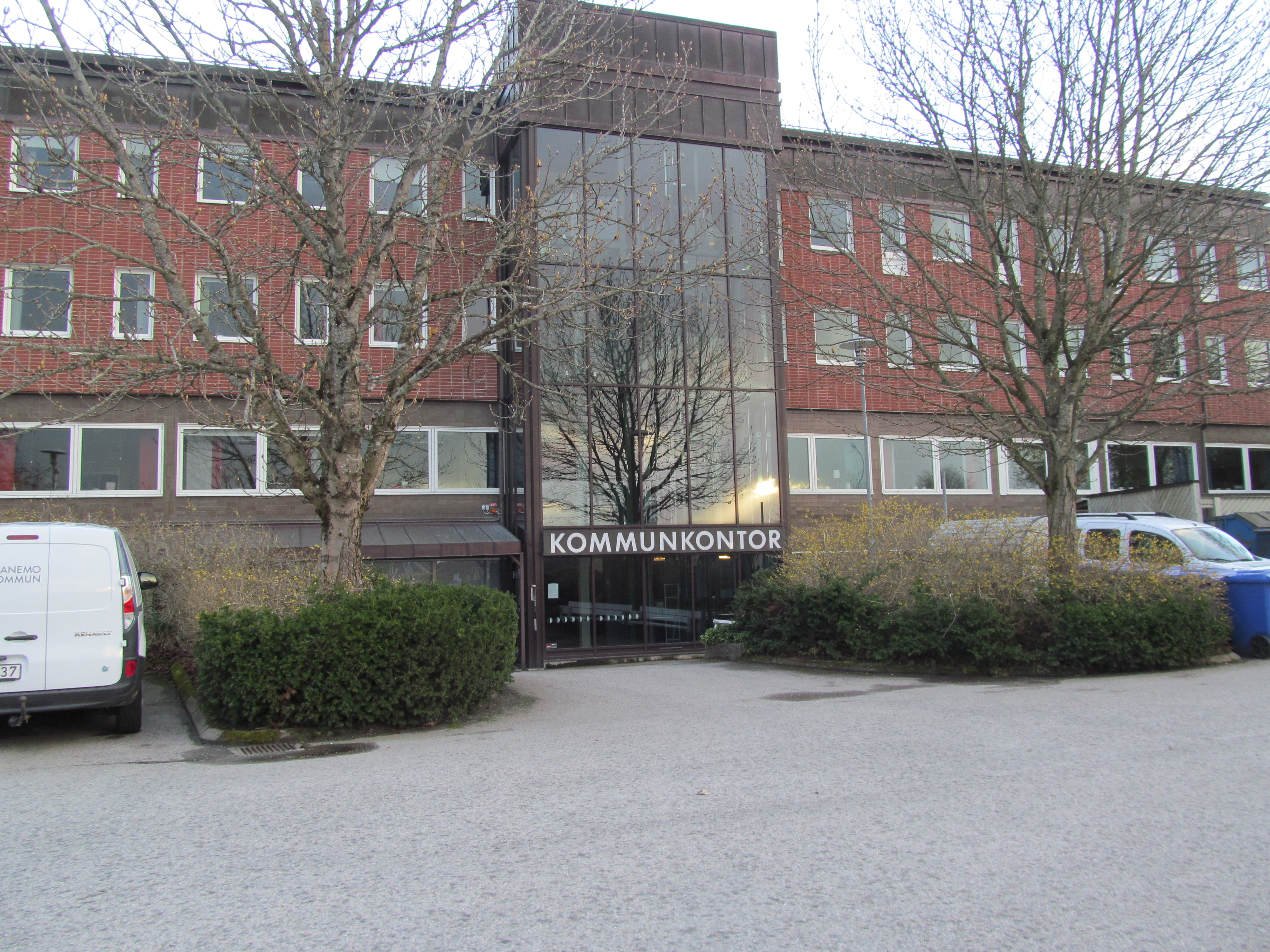 Tranemo municipality office